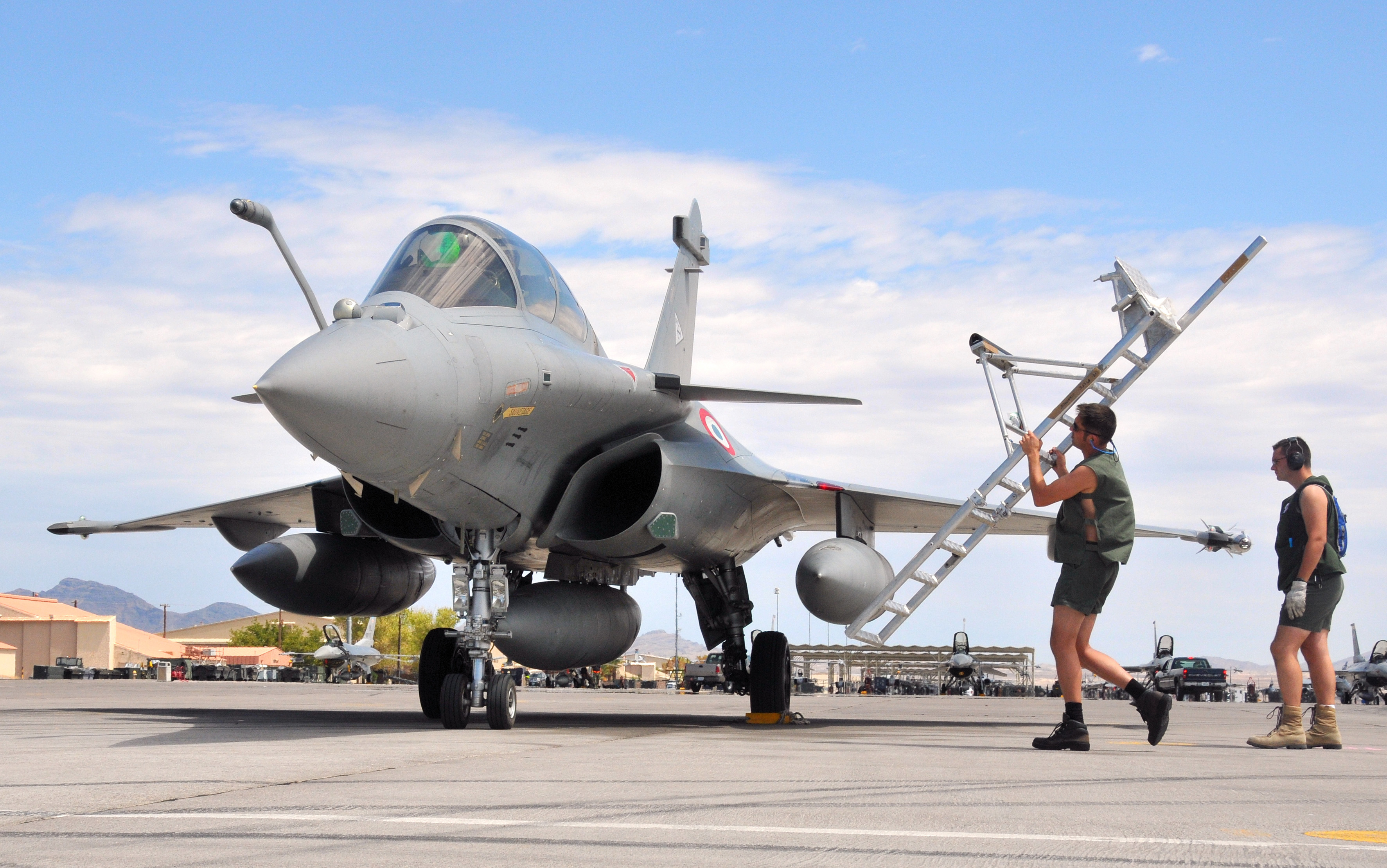 French air force ground crewmen provide a boarding ladder for a Rafale fighter aircrew upon upon their arrival at Nellis Air Force Base, Nev., on Aug. 7. The French team is at Nellis for Red Flag 08-4, an two-week exercise that pits forces in a realistic aerial "battlefield" to hone the fighting skills of American and allied airmen. Republic of Korea, Indian, Navy and Air Force teams are joining the French air force in Red Flag 08-4. (U.S. Air Force photo by Chief Master Sgt. Gary Emery)